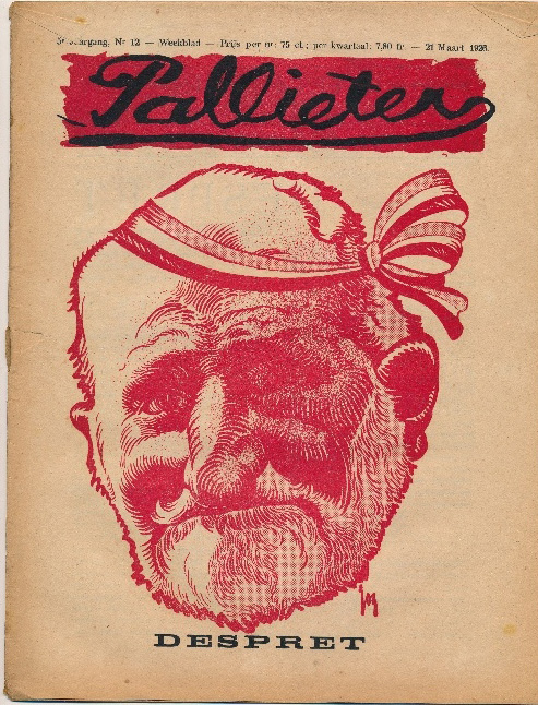 Maurice (?) Despret. Front page of the Flemish magazine Pallieter (1922-1928). All front pages were designed and illustrated by Jos De Swerts (1890-1939).